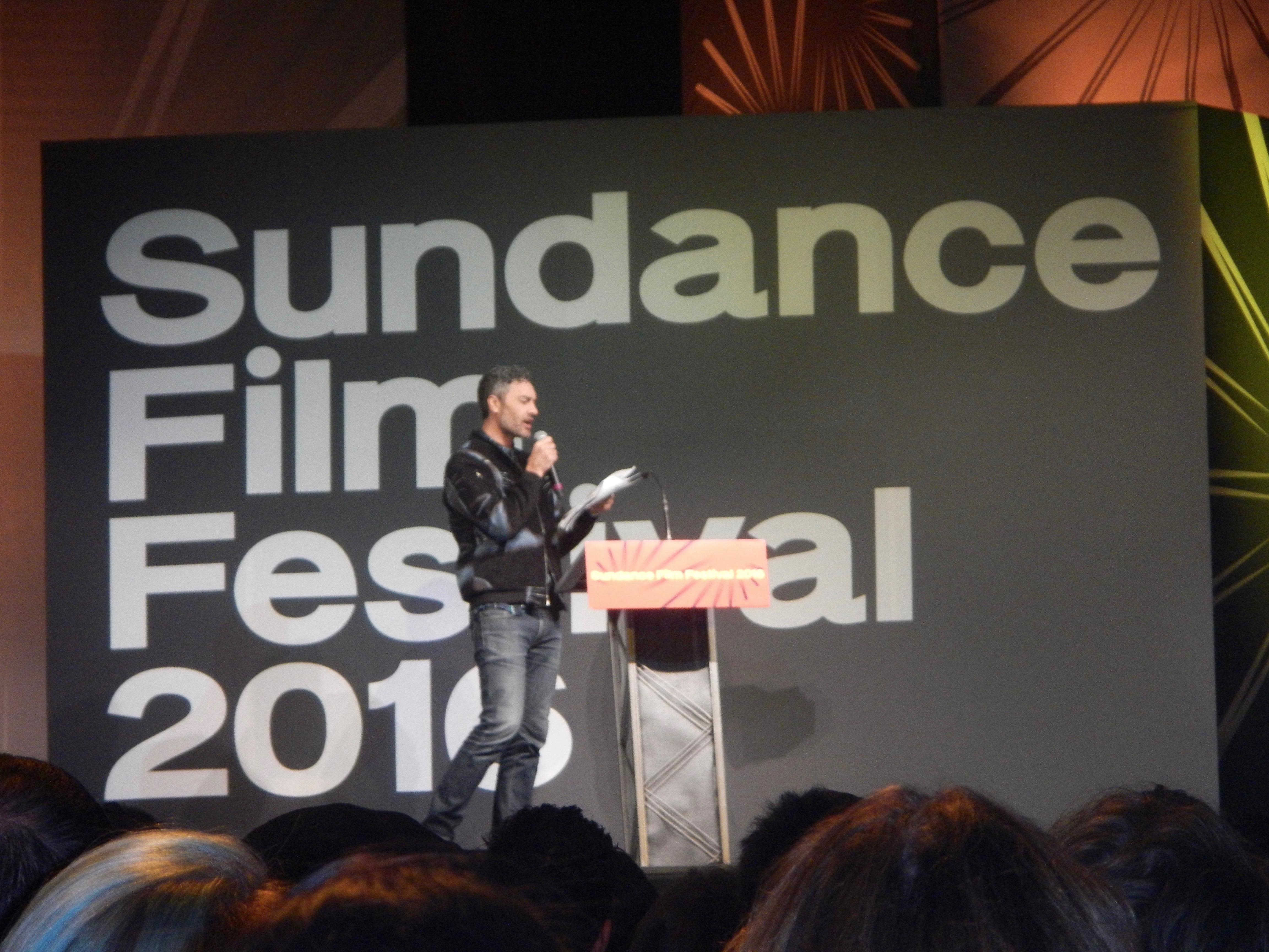 2016 Sundance Film Festival Awards host, Park City UT